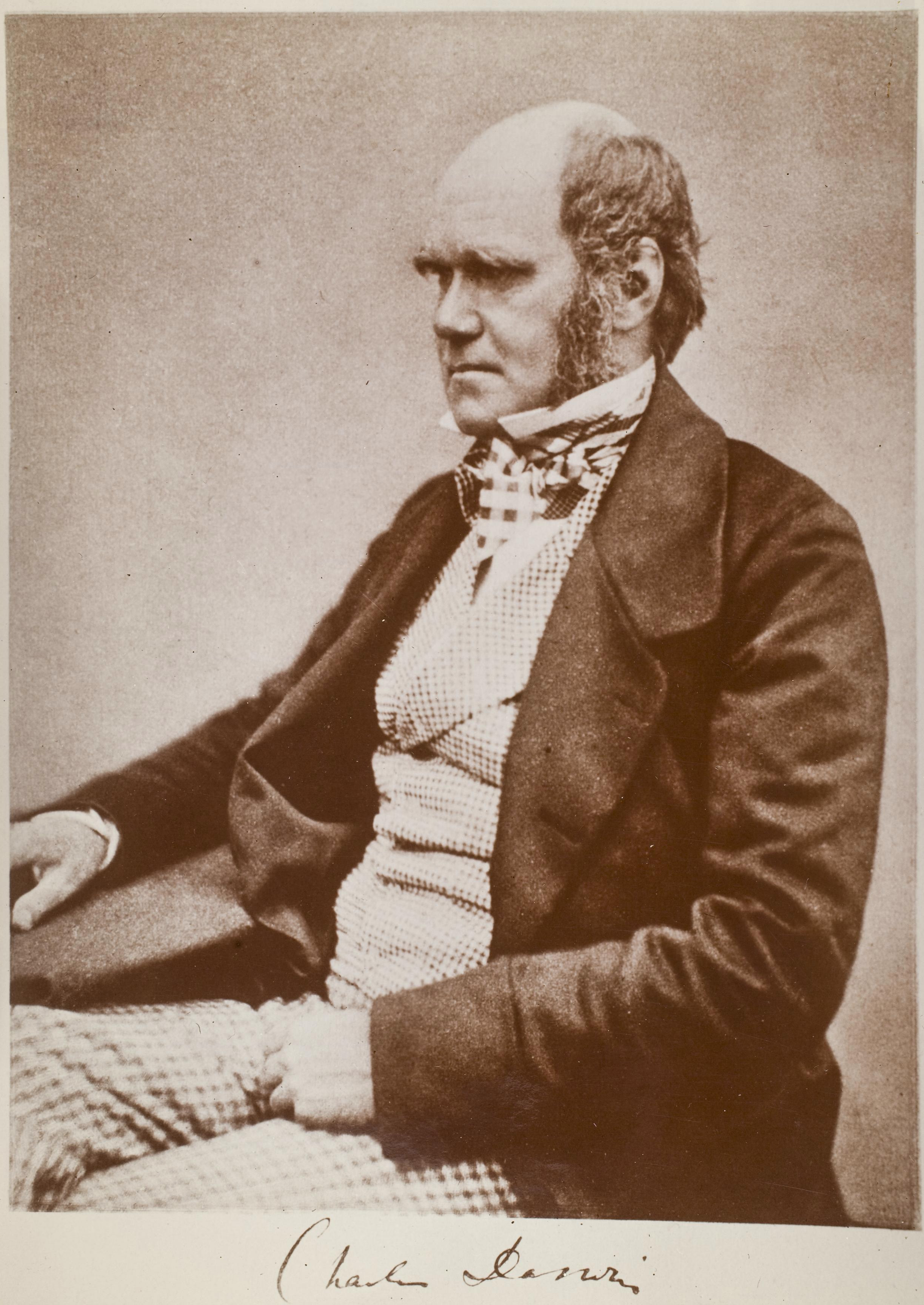 Photograph of Charles Darwin